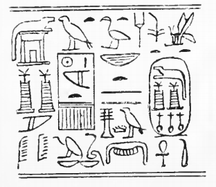 Picture of a cylinder seal impression bearing the name of pharaoh Sobekneferu. The original cylinder seal is now in the British Museum. Reign of Sobekneferu, very end of the 12th dynasty, Middle Kingdom.